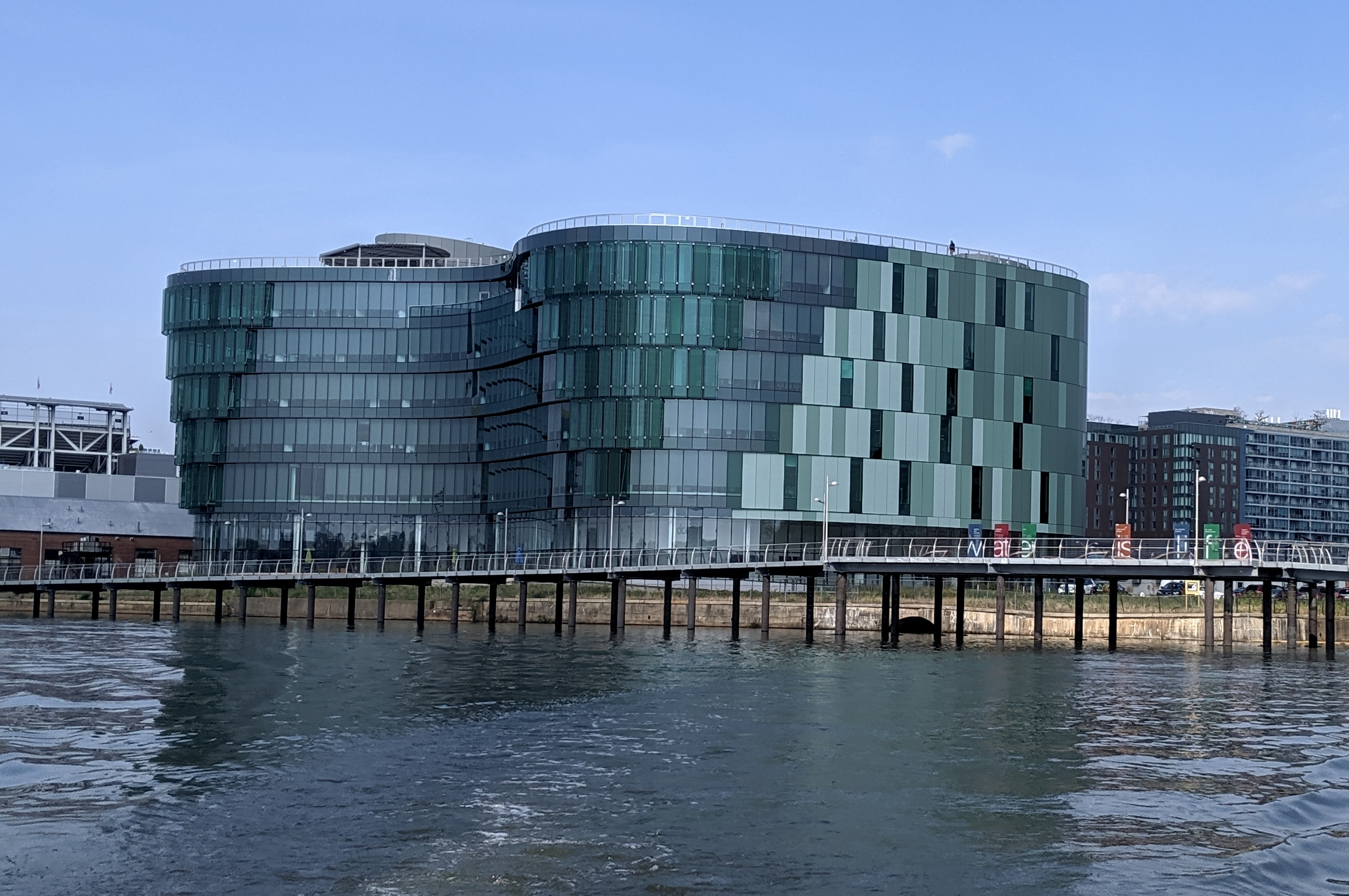 View of the headquarters building of the District of Columbia Water and Sewer Authority (DC Water) in Washington, D.C. The building, named "HQO", is so named because it is located atop the O Street Pumping Station, along the Anacostia River. The headquarters building was completed in 2019 and is a "green building" certified as LEED Platinum Class A. It contains sustainable design features including a sewer heat recovery system using the adjacent pumping station and a 30,000 gallon rainwater cistern (used for onsite irrigation and other non-potable uses in the building).